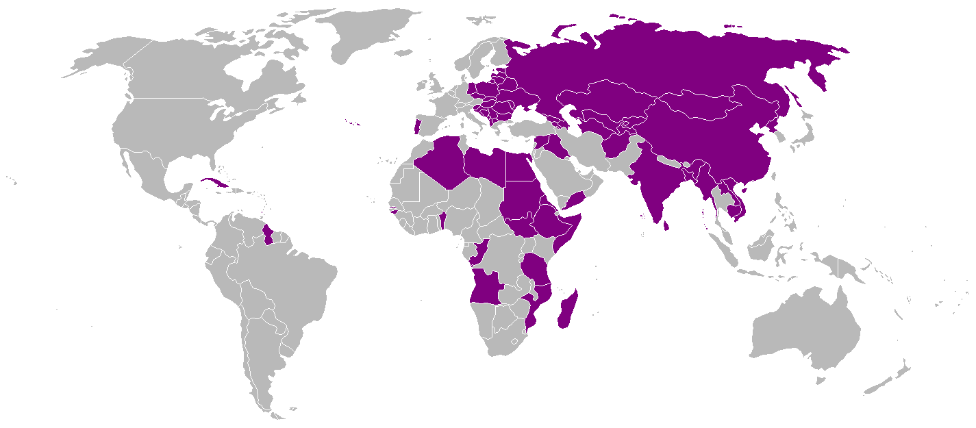 A map of countries (using present-day borders) that have constitutionally declared themselves to be "socialist", under any definition (both Marxist and non-Marxist), at some point in their history. The map is anachronous, meaning that it does not represent any specific point in time (these countries were not socialist all at once).